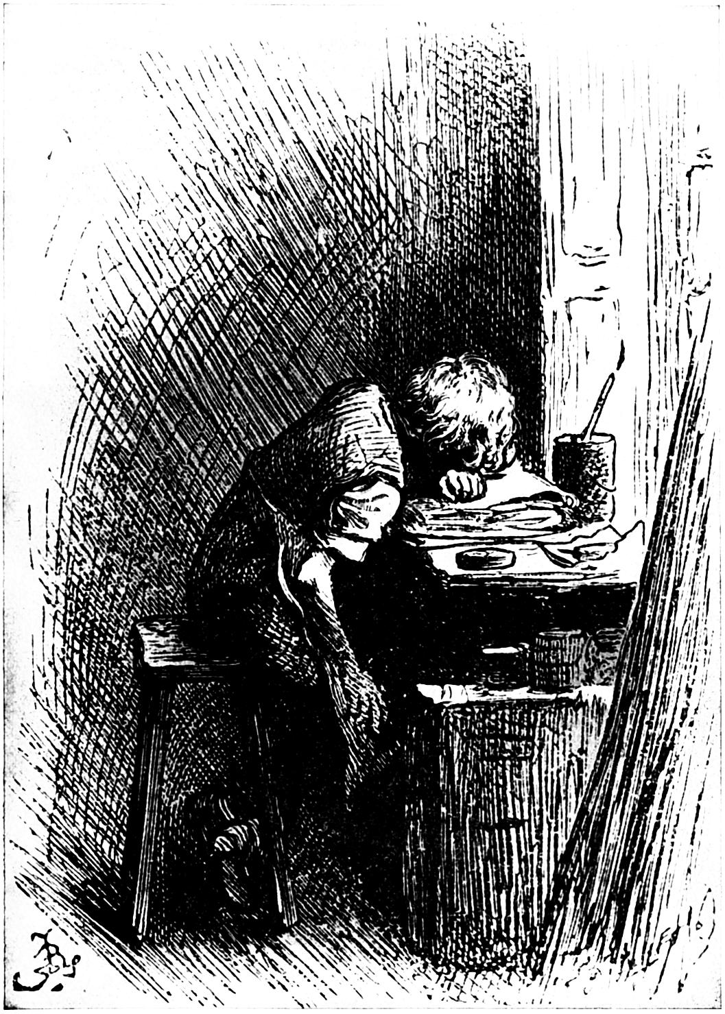 Dickens at the Blacking Warehouse. Charles Dickens is here shown as a boy of twelve years of age, working in a factory.